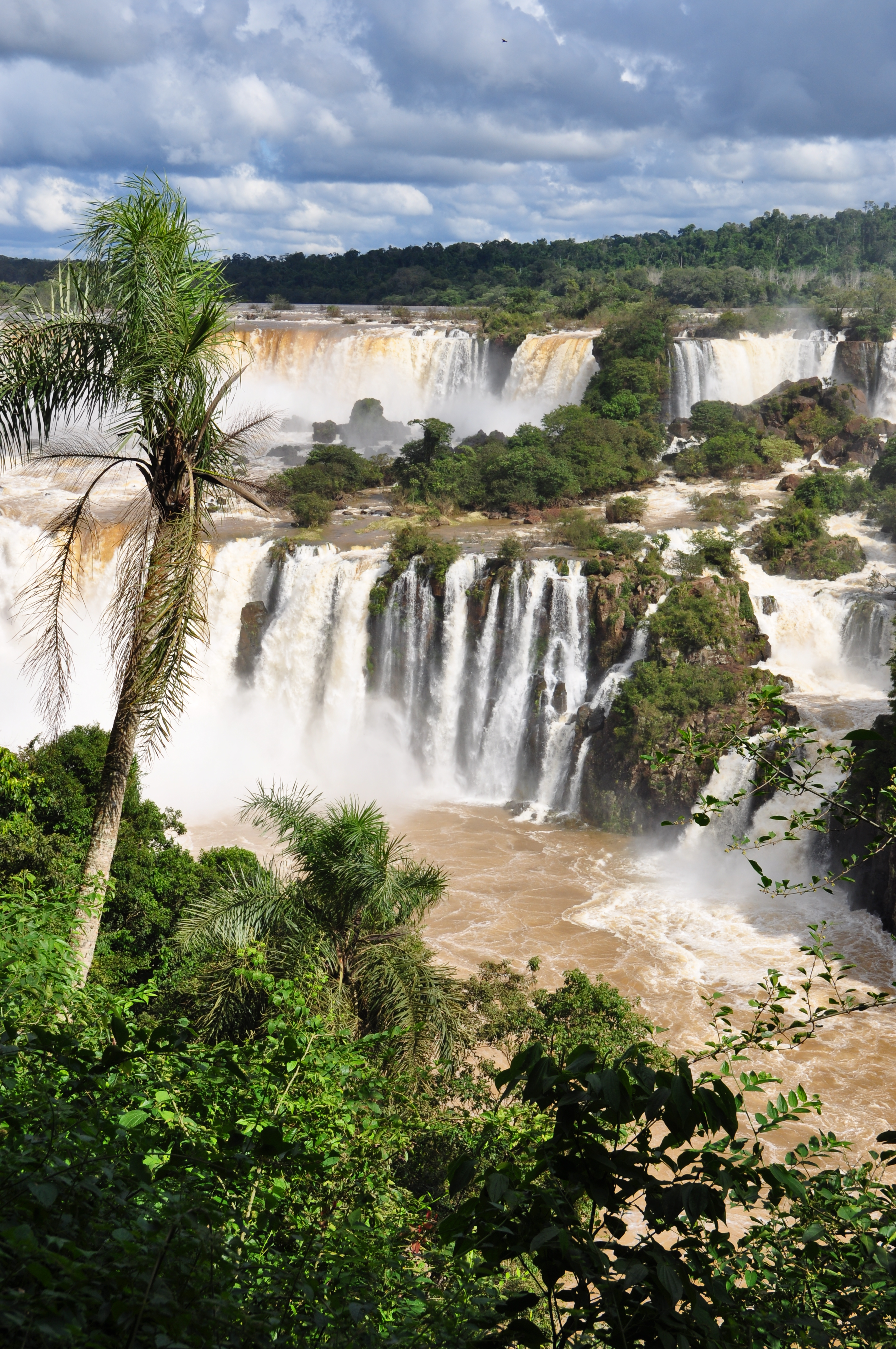 Iguazu Falls Iguaca Brazil Argentina June 2010